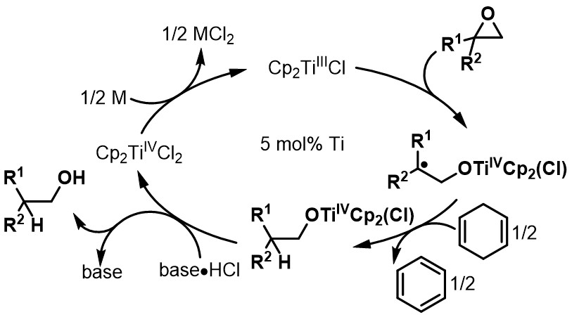 Catalytic modification to Nugent-RajanBabu epoxide opening